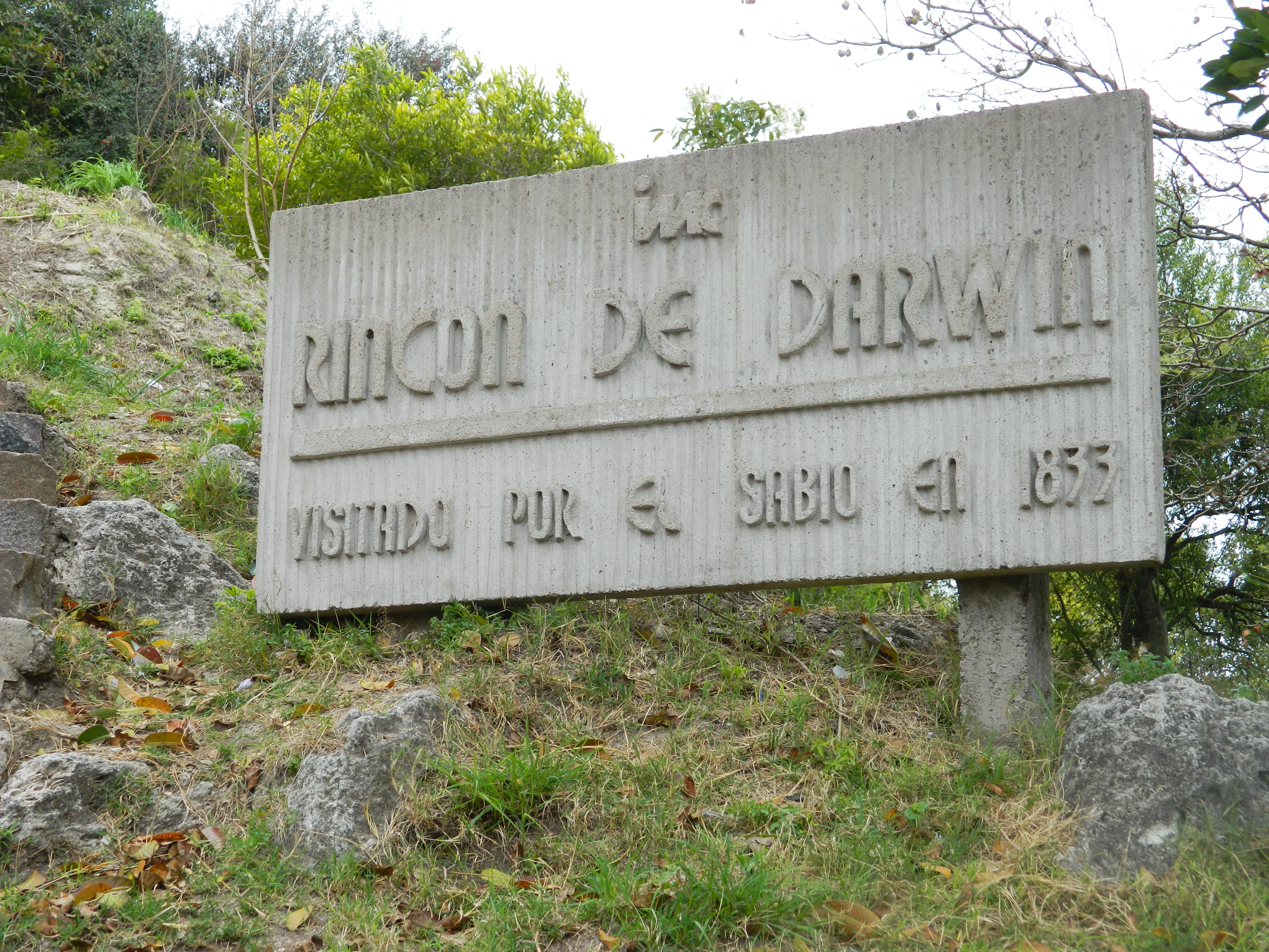 Sign in honor of Charles Darwin, who visited Punta Gorda in 1833 during his trip on board the HMS Beagle.